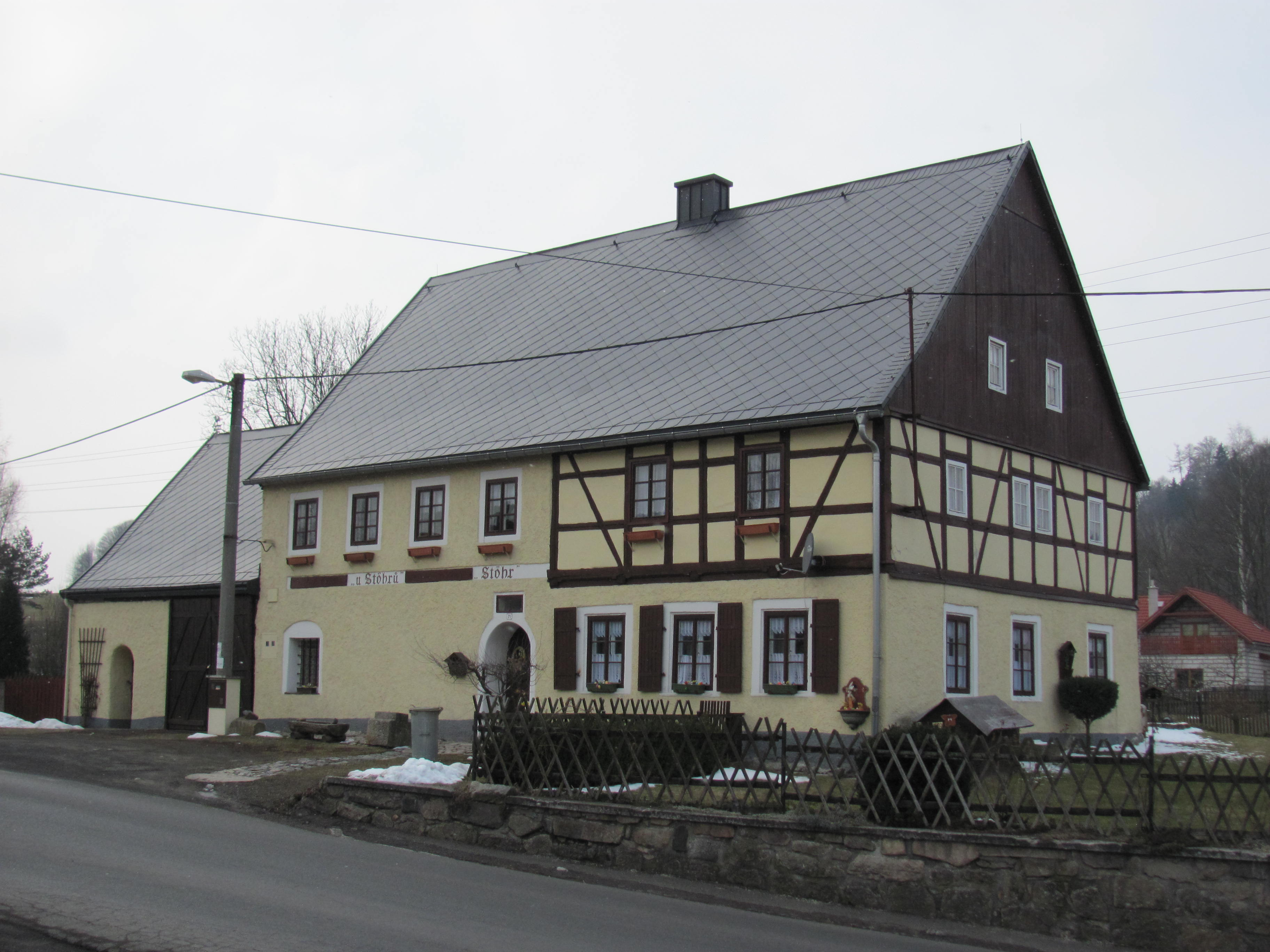 Pub in Děpoltovice 71, (Karlovy Vary District), cultural monument